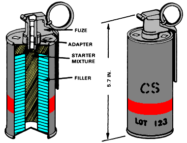 Drawing of an American ABC-M7A2 / ABC-M7A3 CS gas grenade.